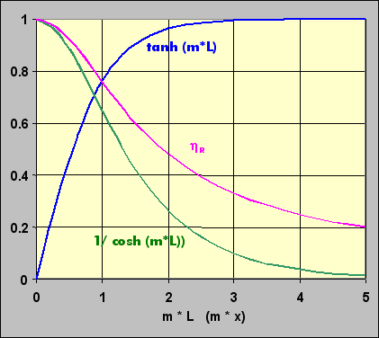 Fin efficiency ηR and hyperbolic functions tanh and 1/cosh for temperature profile calculation of a cooling fin.